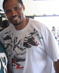 Keenan McCardell (right) with a fan in April 2007.